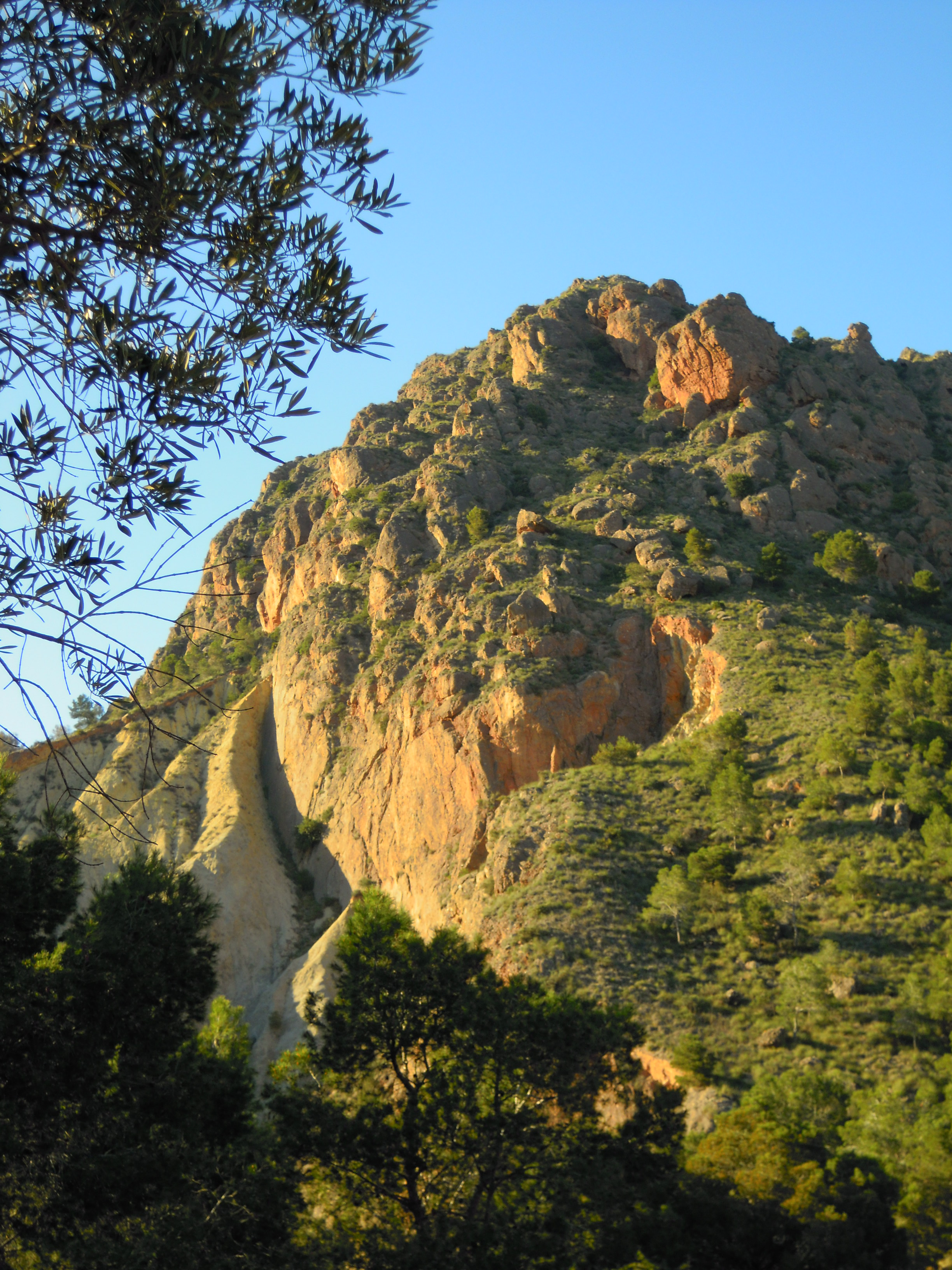 Puntarrón, mount in Beniaján